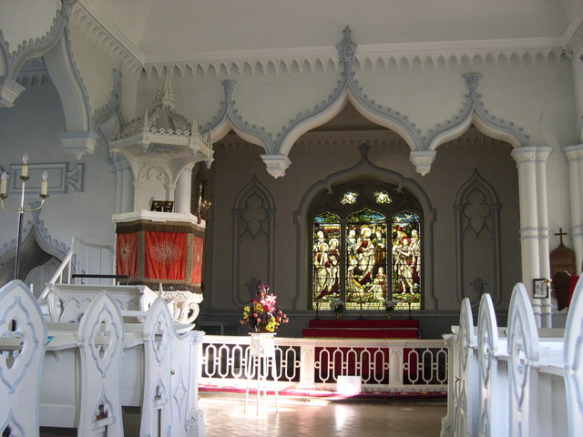 St John Evangelist, Shobdon, East end, near to Shobdon, Herefordshire, Great Britain. A Gothick fantasy, inspired by Horace Walpole's Strawberry Hill.